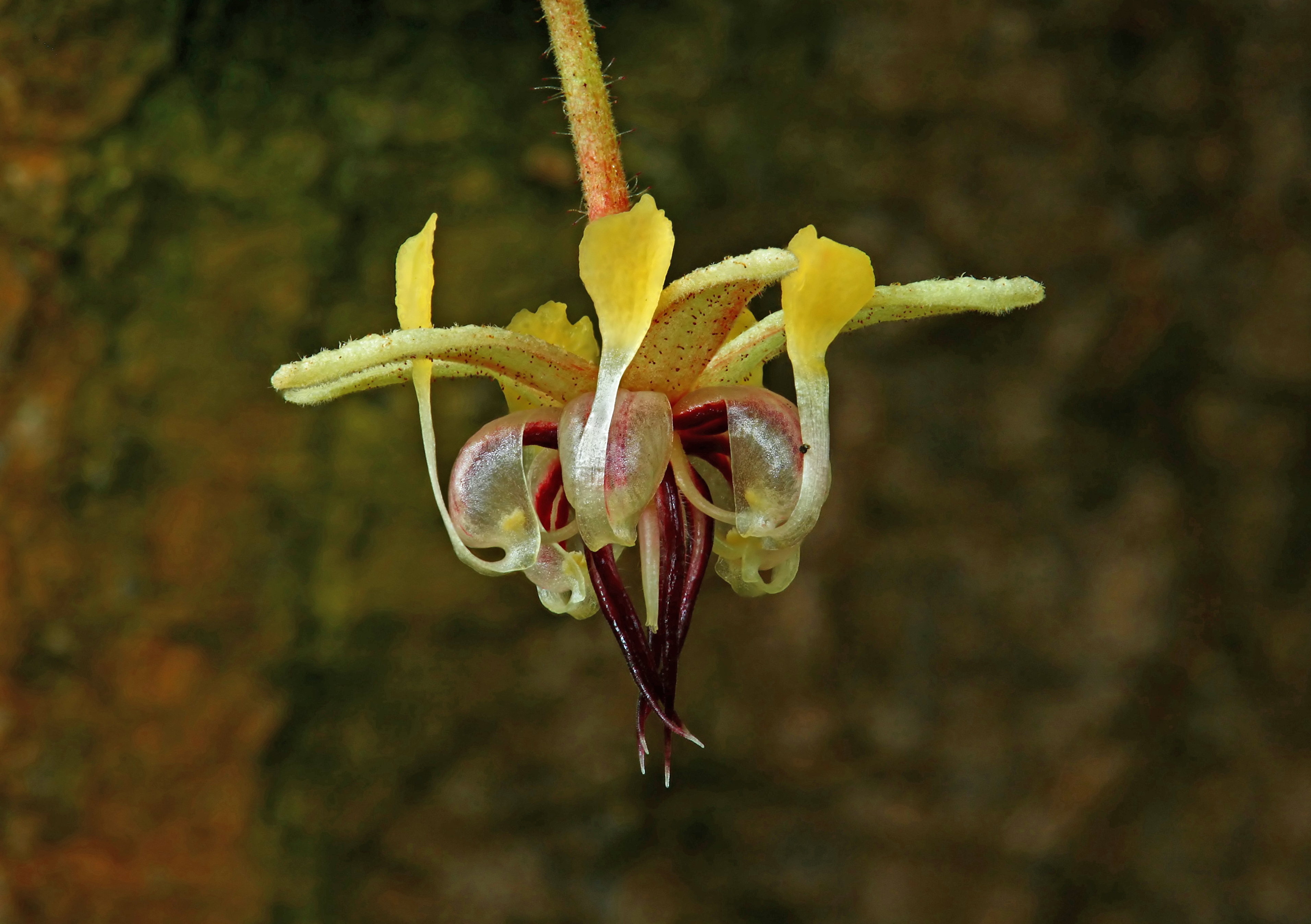 Cacao, flower; Stutensee-Staffort, Germany.